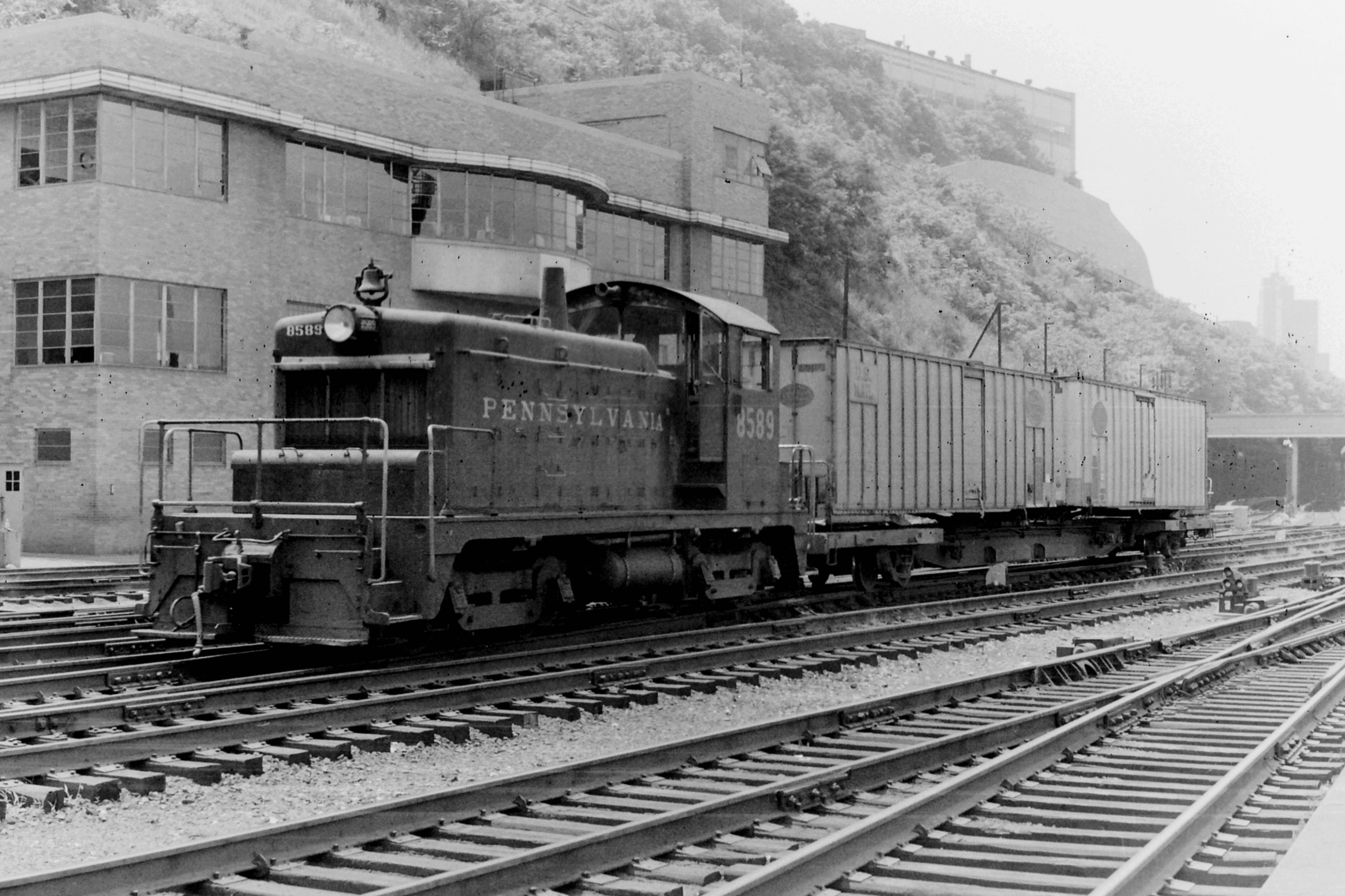 Penn Central EMD SW1 #8589, still in Pennsylvania RR livery, switching at Penn Central Station, Pittsburgh, 7/70.